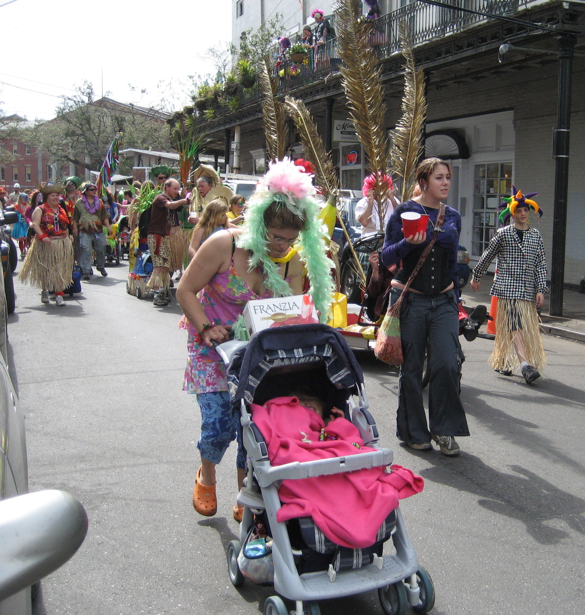 New Orleans Mardi Gras: "Mondo Kayo" parading society arrives on Frenchmen Street in the Faubourg Marigny neighborhood.